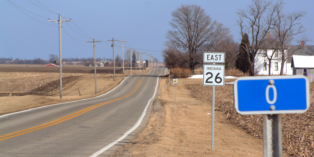 The start (mile zero) of Indiana State Road 26 in northwestern Warren County, approximately two miles south of the town of Ambia. Photo looks east from the Indiana-Illinois state line.